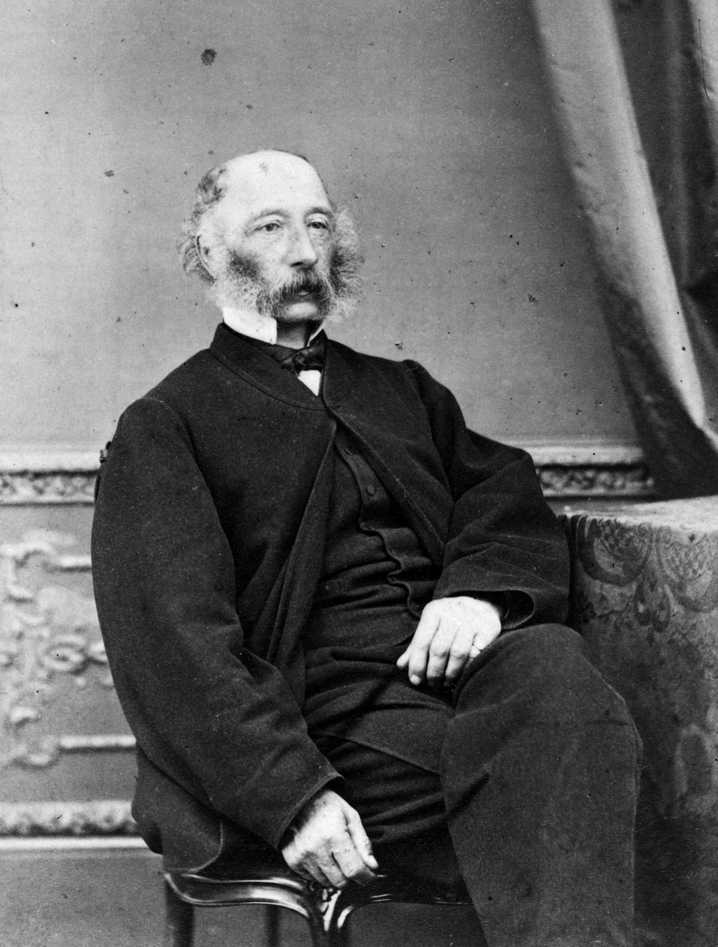 Seated portrait of William Fitzherbert (1810 – 1891)